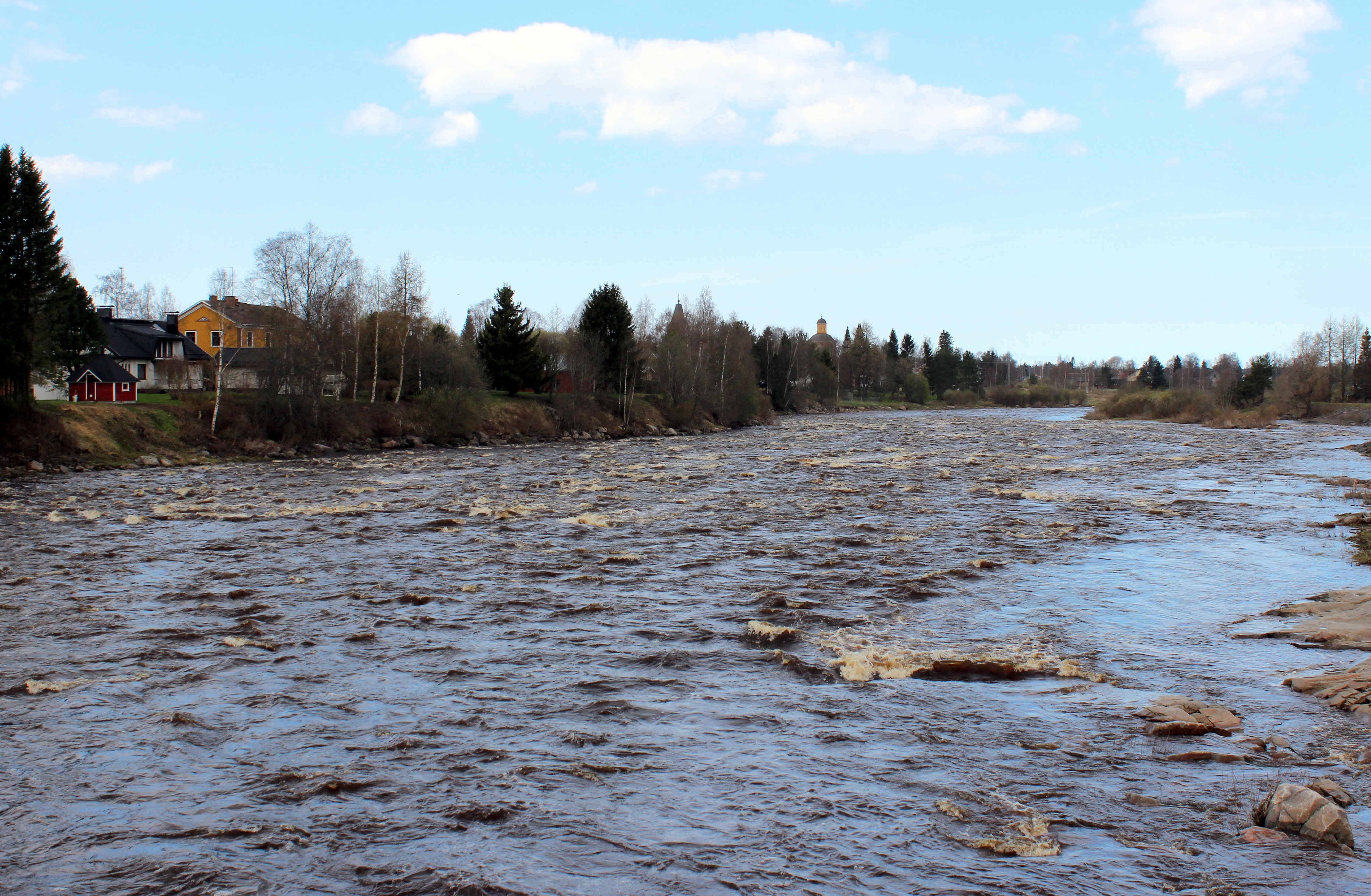 Kalajoki river near the center of Kalajoki municipality seen from Saarisilta bridge.